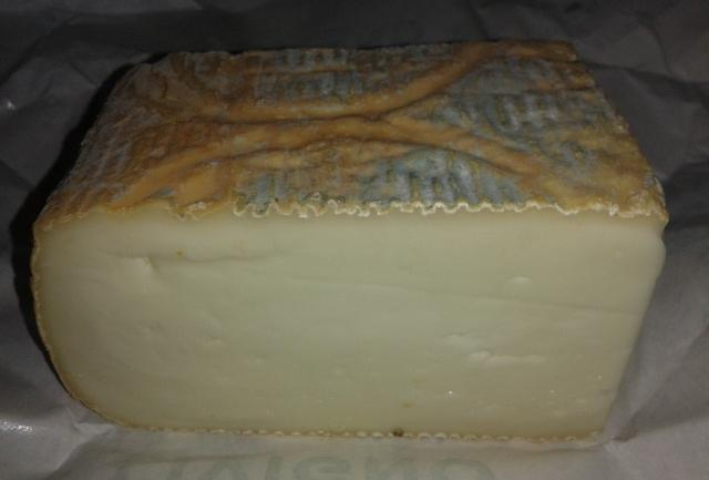 Taleggio Cheese